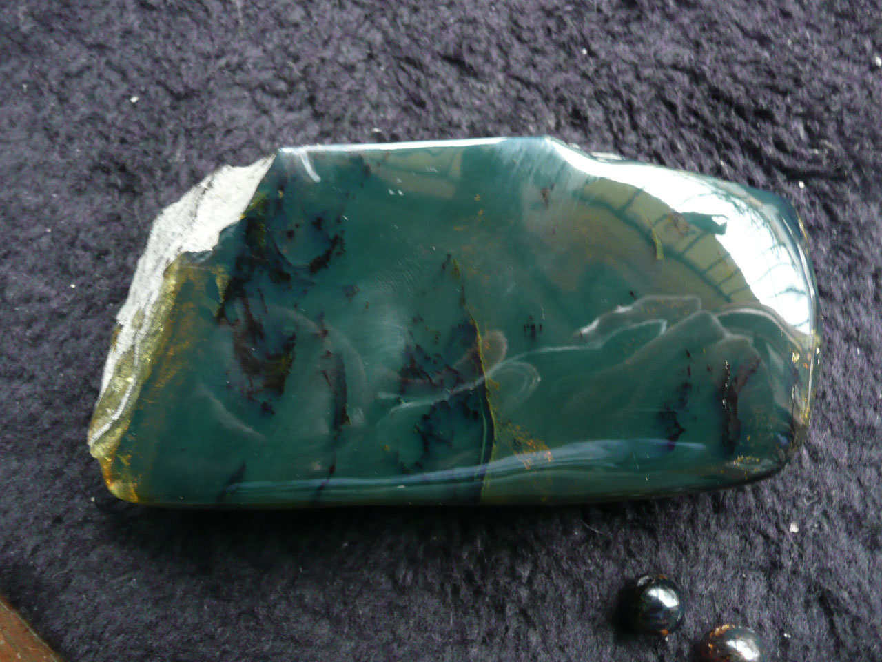 Green Caribbean Amber from the Dominican Republic